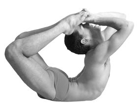 Maha Dhanurásana - Retroflex position